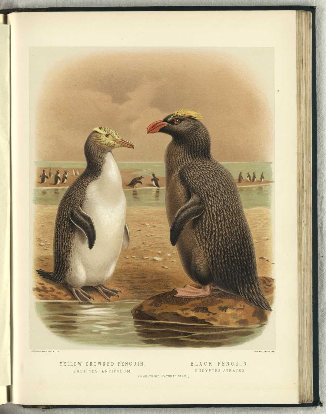 Illustration of the Yellow-eyed Penguin/Hoiho (Megadyptes antipodes) and the Erect-crested Penguin (Eudyptes sclateri).